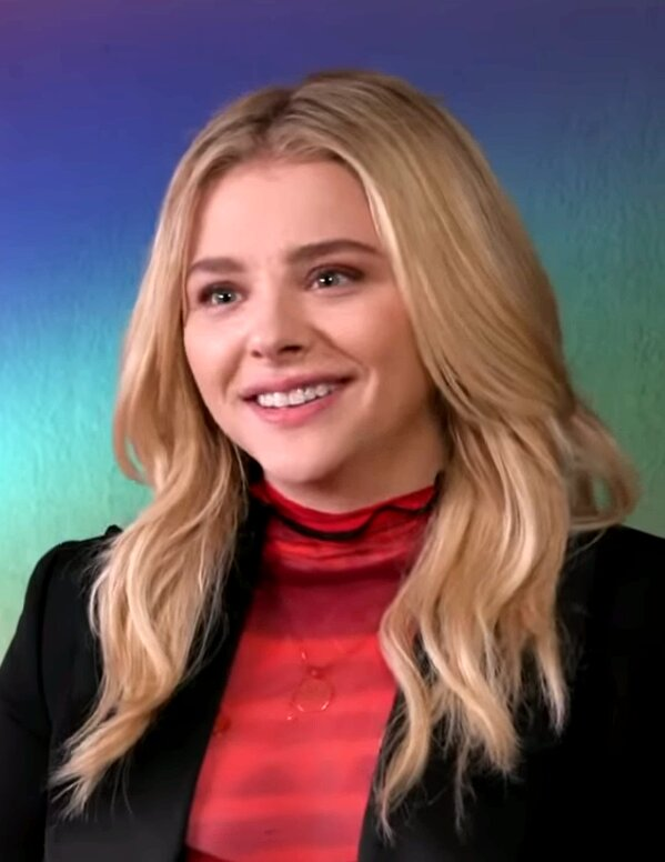 Chloë Moretz, star of new LGBTQ+ coming of age film The Miseducation Of Cameron Post, gives us all the goss on her return to our cinema screens after a year long break, her funniest memories from making the new movie, and what made the movie’s realistic sex scenes totally different to any others she’s worked on.